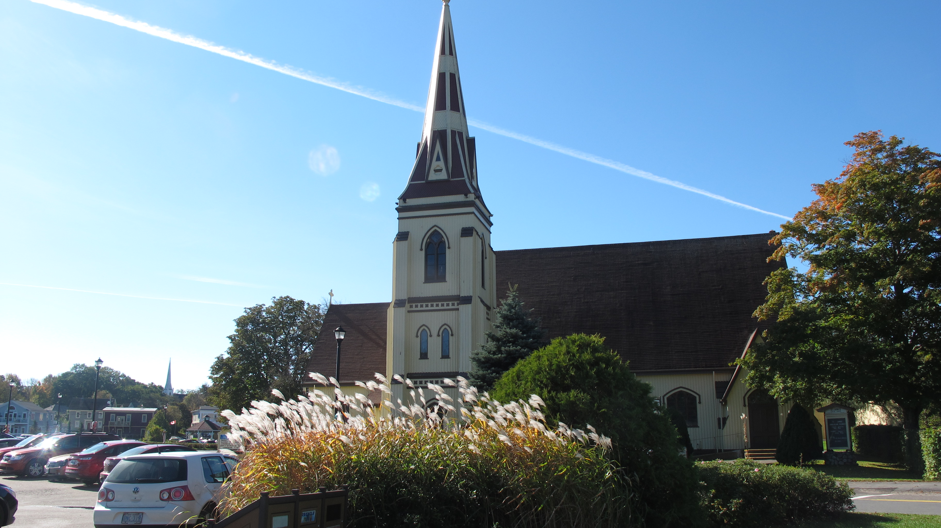 St. James' Anglican Church, 65 Edgewater Street, Mahone Bay, Nova Scotia, B0J